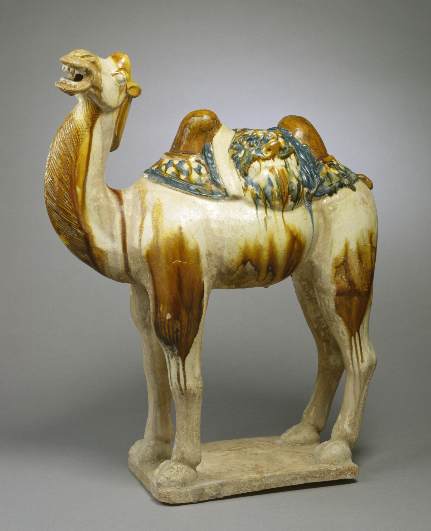 This double-humped camel with tiger-faced saddlebag raises its head and bares its teeth. Its maker modeled the figure, allowed it to dry, then covered it with a thin coat of white clay (slip) before applying lead silicate glazes of amber, cream, blue, green and brown. When the camel was later fired, the glazes ran together in the kiln, producing a mottled and streaked effect that evidently appealed to the Tang [T'ang] Chinese. Tie-dyed textiles of the period have a similar character. This camel, like all wares with lead-fluxed glazes, was made to be placed in a tomb, presumably of an important person.